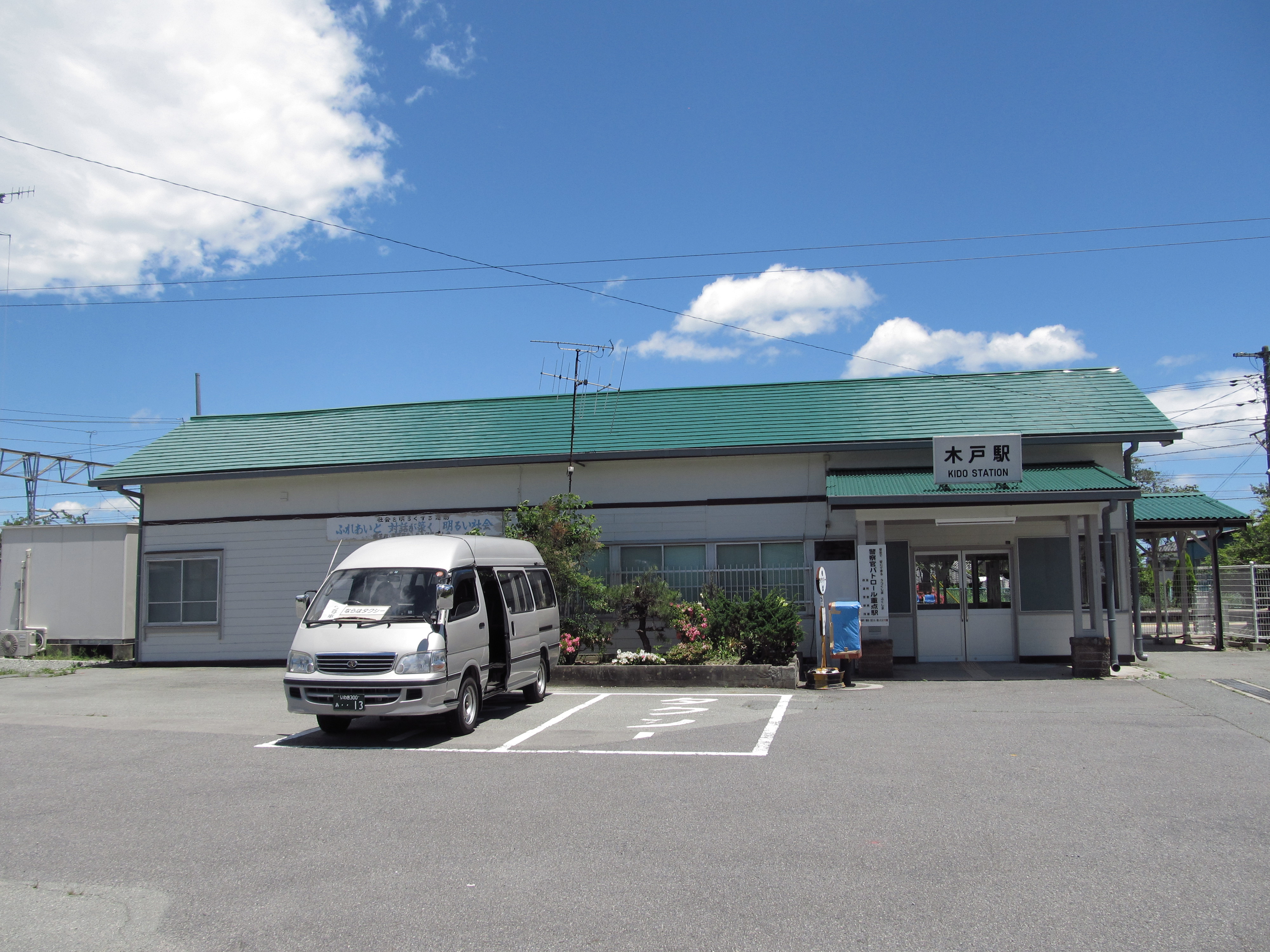 The building of Kido Station